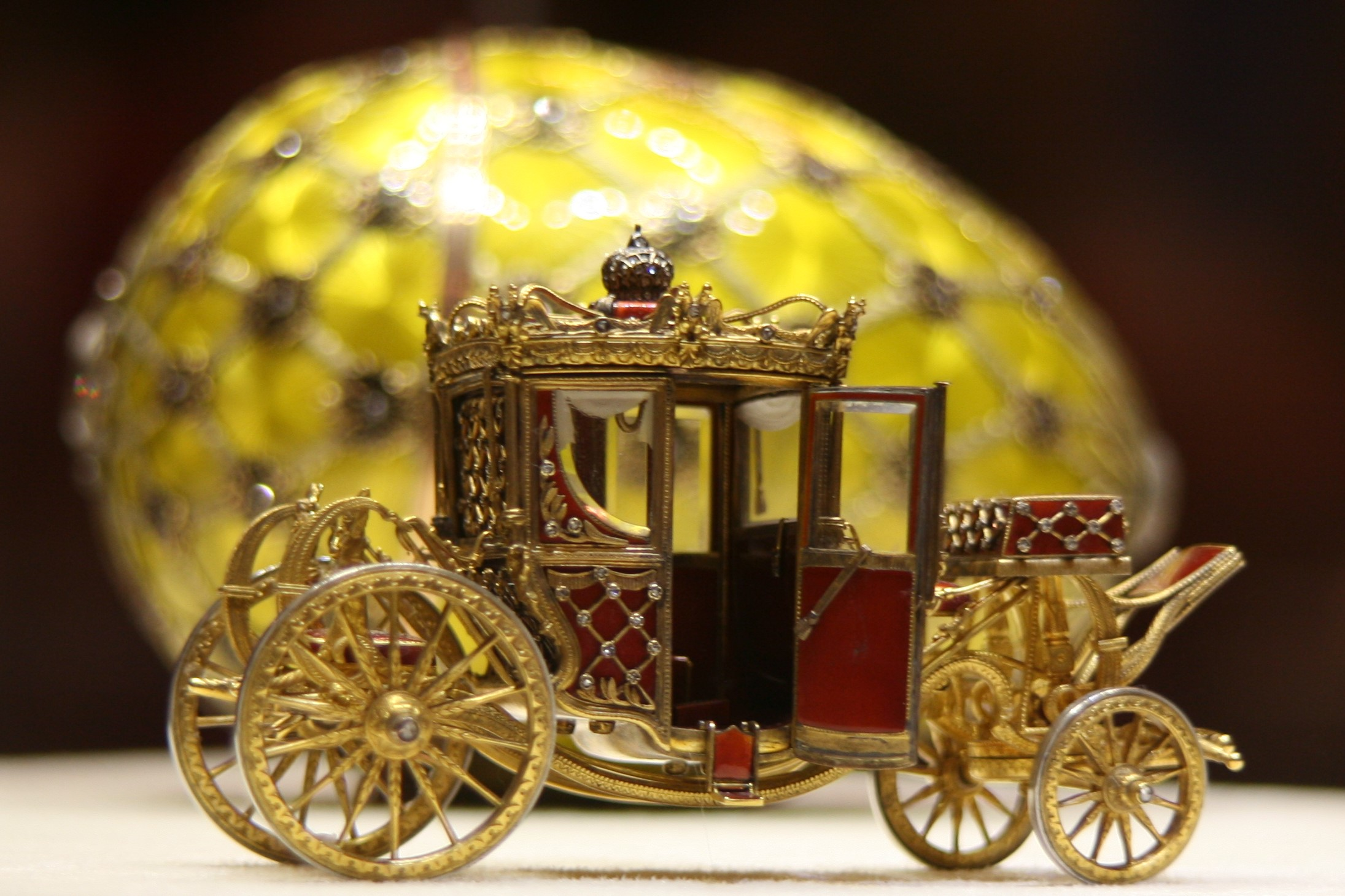 Photo of 'Coronation' Imperial egg by Faberge